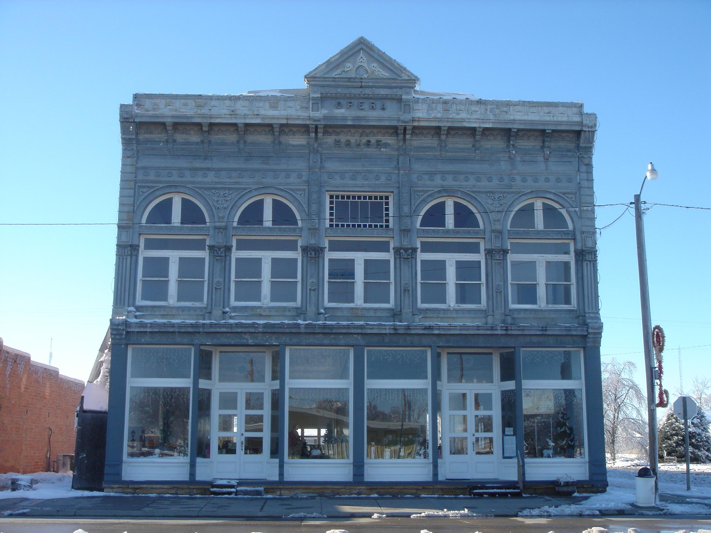 A building in Grainfield constructed as an "Opera House," but now serving as an antique shop.